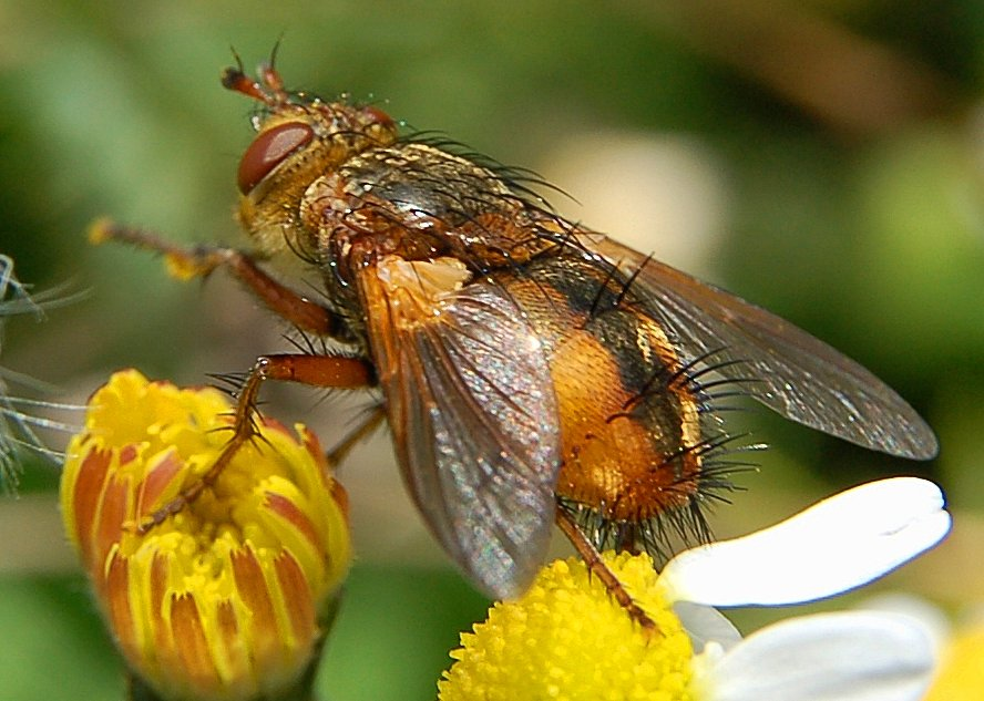 Tachina fera from Belgium, Ciney (Chapois) natural reserve Marie Mouchon.